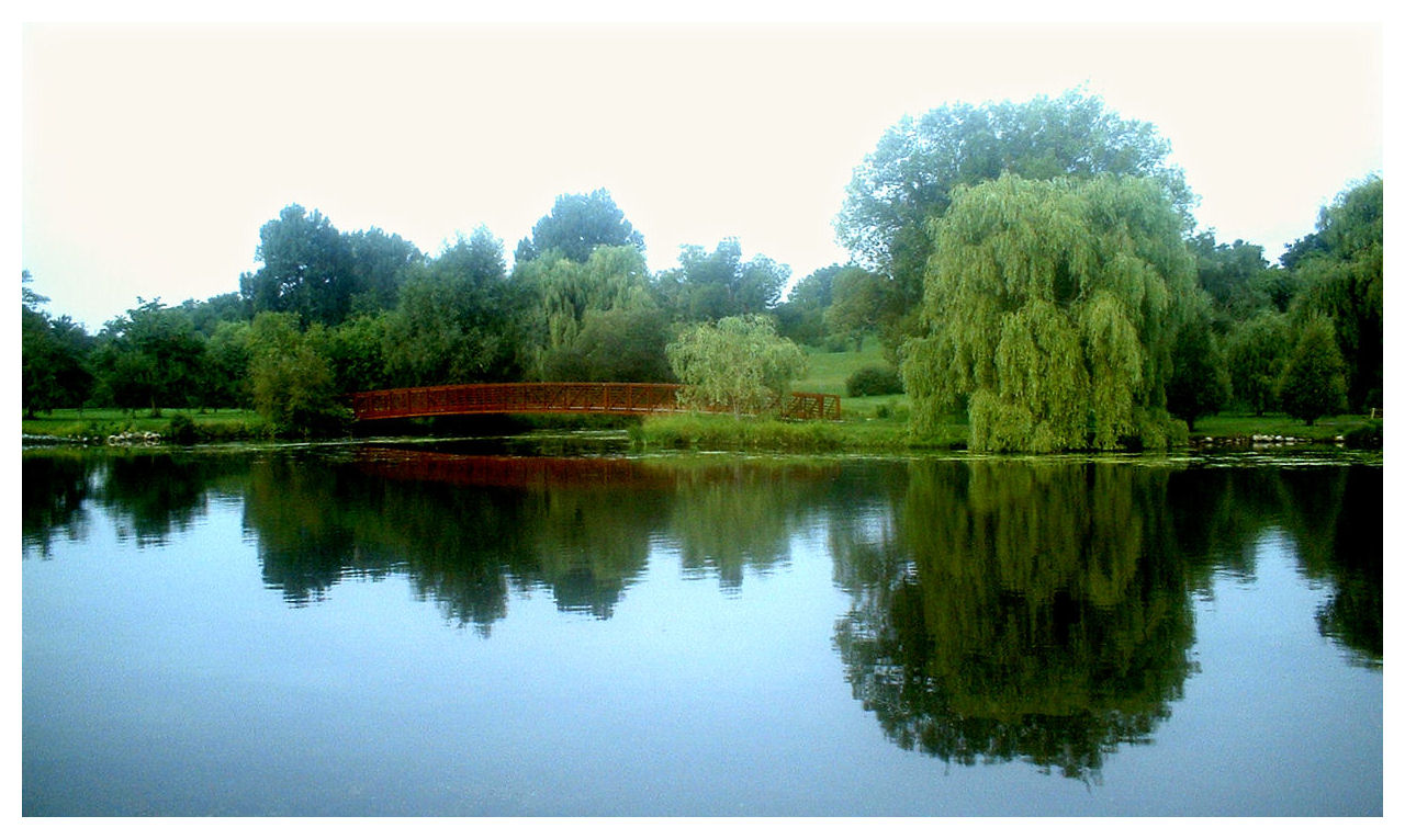 The Rideau Canal just south of Dow's Lake in Ottawa, Ontario, Canada.